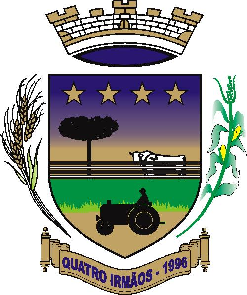 Coat of arms of the city of Quatro Irmãos, Rio Grande do Sul, Brazil.